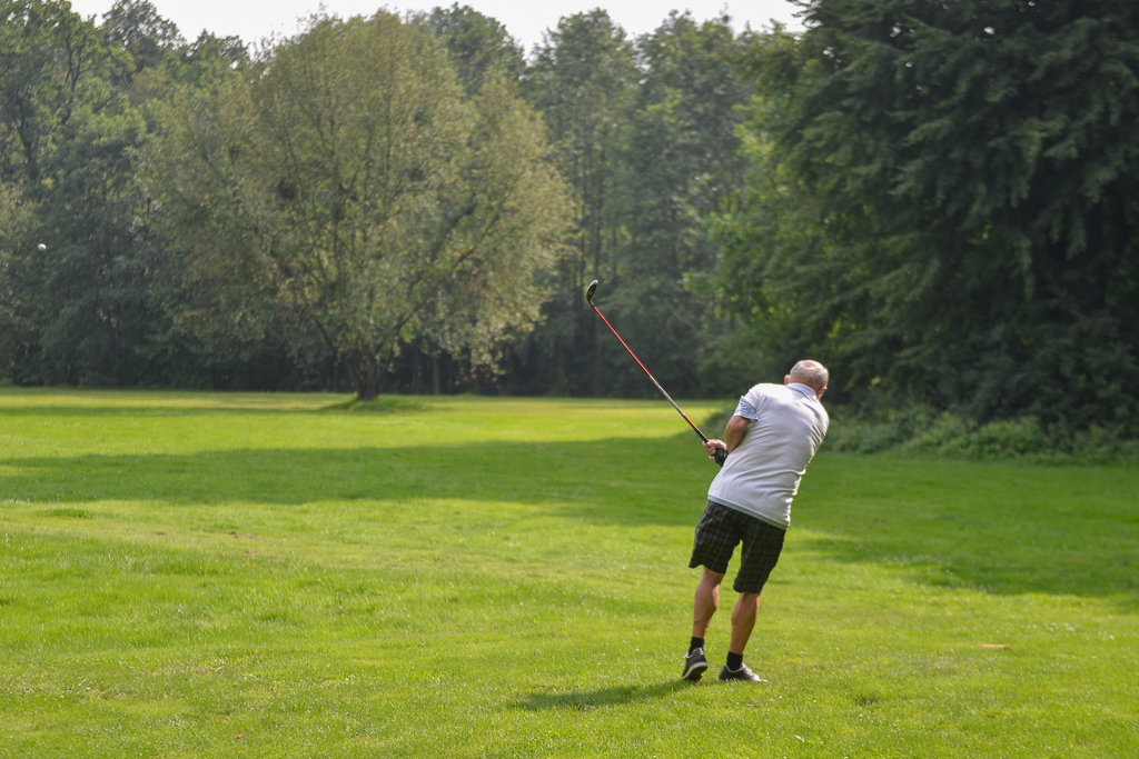 Golf course in Pszczyna, silesian voivodeship, Poland